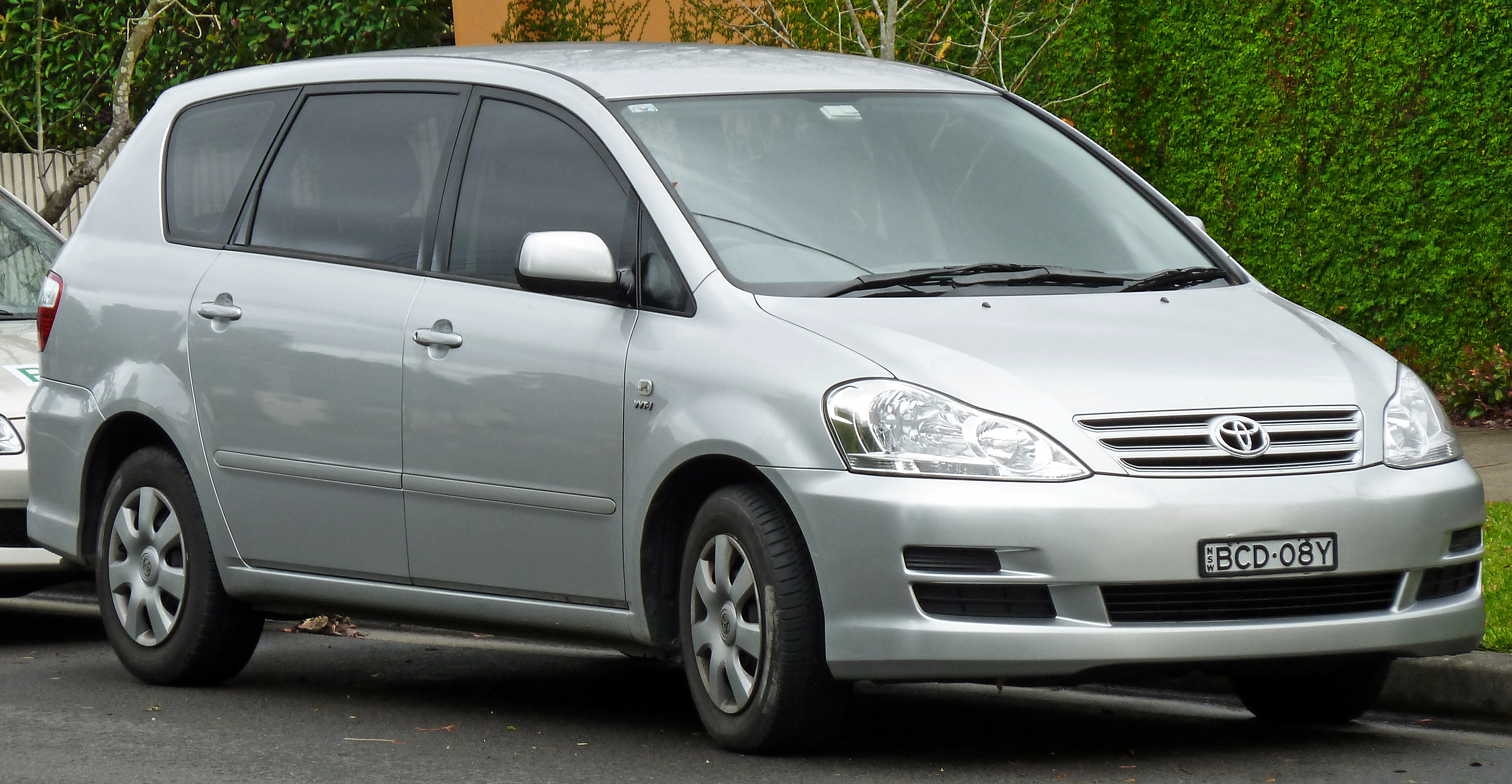 2007 Toyota Avensis Verso (ACM21R) GLX wagon. Photographed in Gordon, New South Wales, Australia.